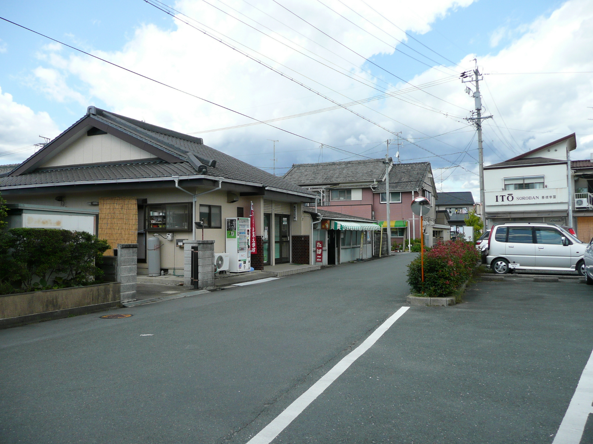 Enshu-Gansuiji MAE Station plaza, Enshu Railway Line.